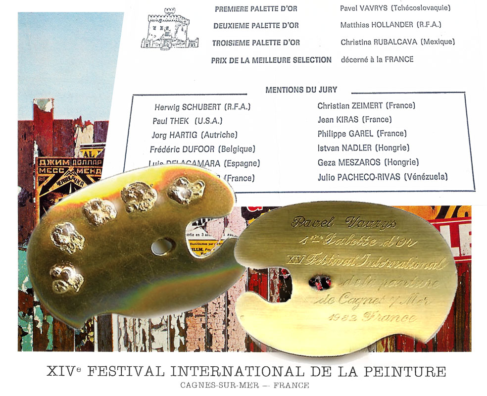 This is the first prize - "GOLD PALET" on XIV. International Painting Competition in Cagnes sur Mer in southern France. In 1982 this award was received by the academic painter Pavel Vavrys from Czechoslovakia. At this competition (XIV INTERNATIONAL FESTIVAL DE LA PEINTURE, Cagnes sur Mer, France), in year 1982, 350 painters' paintings from 39 countries were registered.